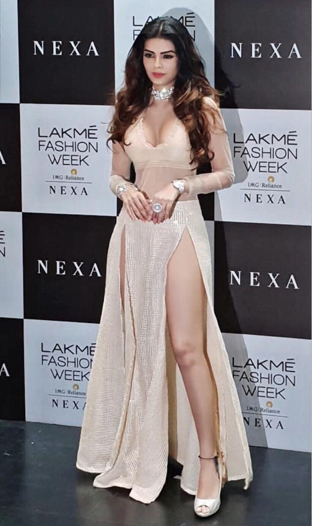 Raut at Lakme Fashion Week